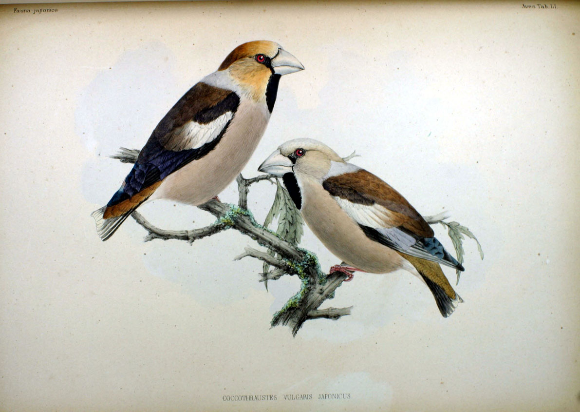 An illustration of two Hawfinches (Coccothraustes vulgaris japonicus = Coccothraustes coccothraustes japonicus) from Fauna Japonica